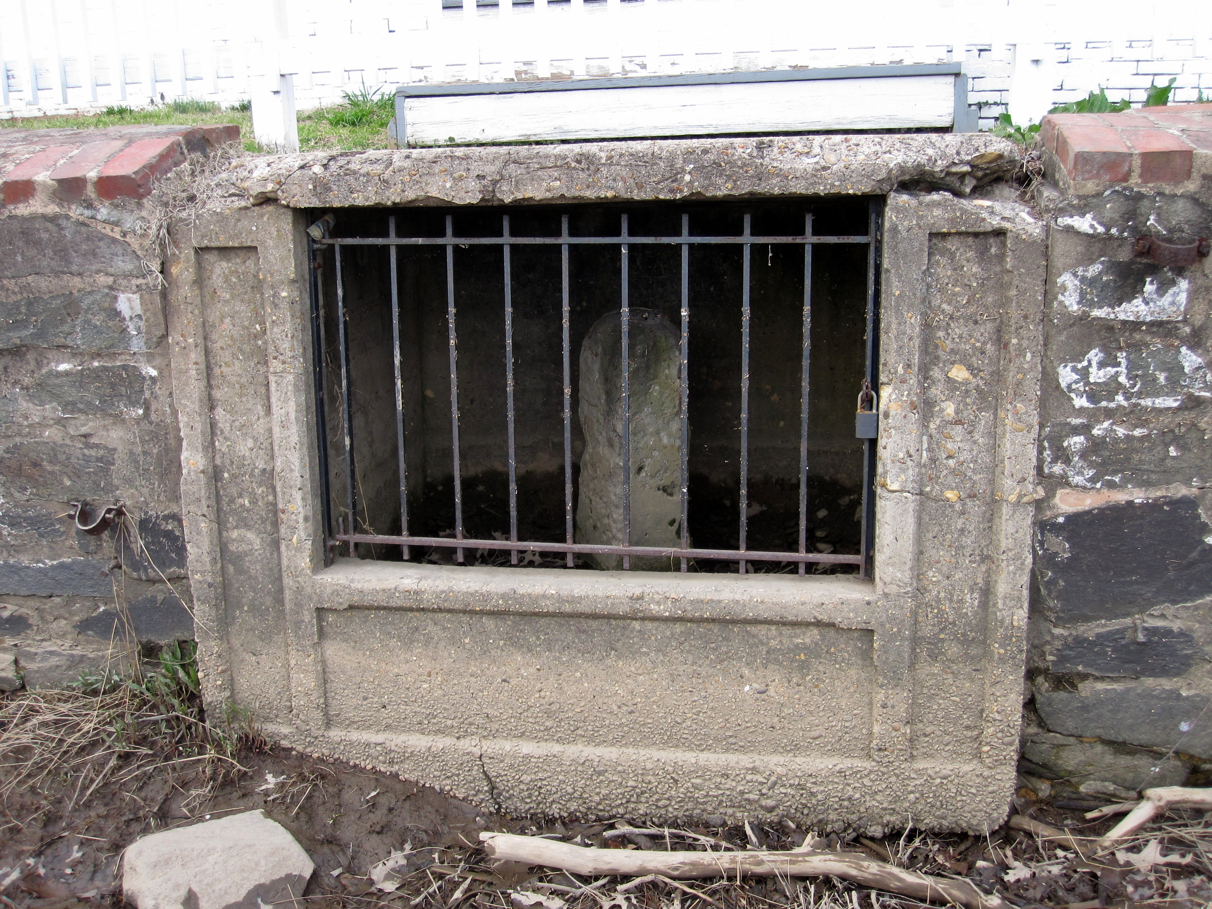 The Southern D.C. boundary cornerstone is located in the sea wall of Jones Point Light.